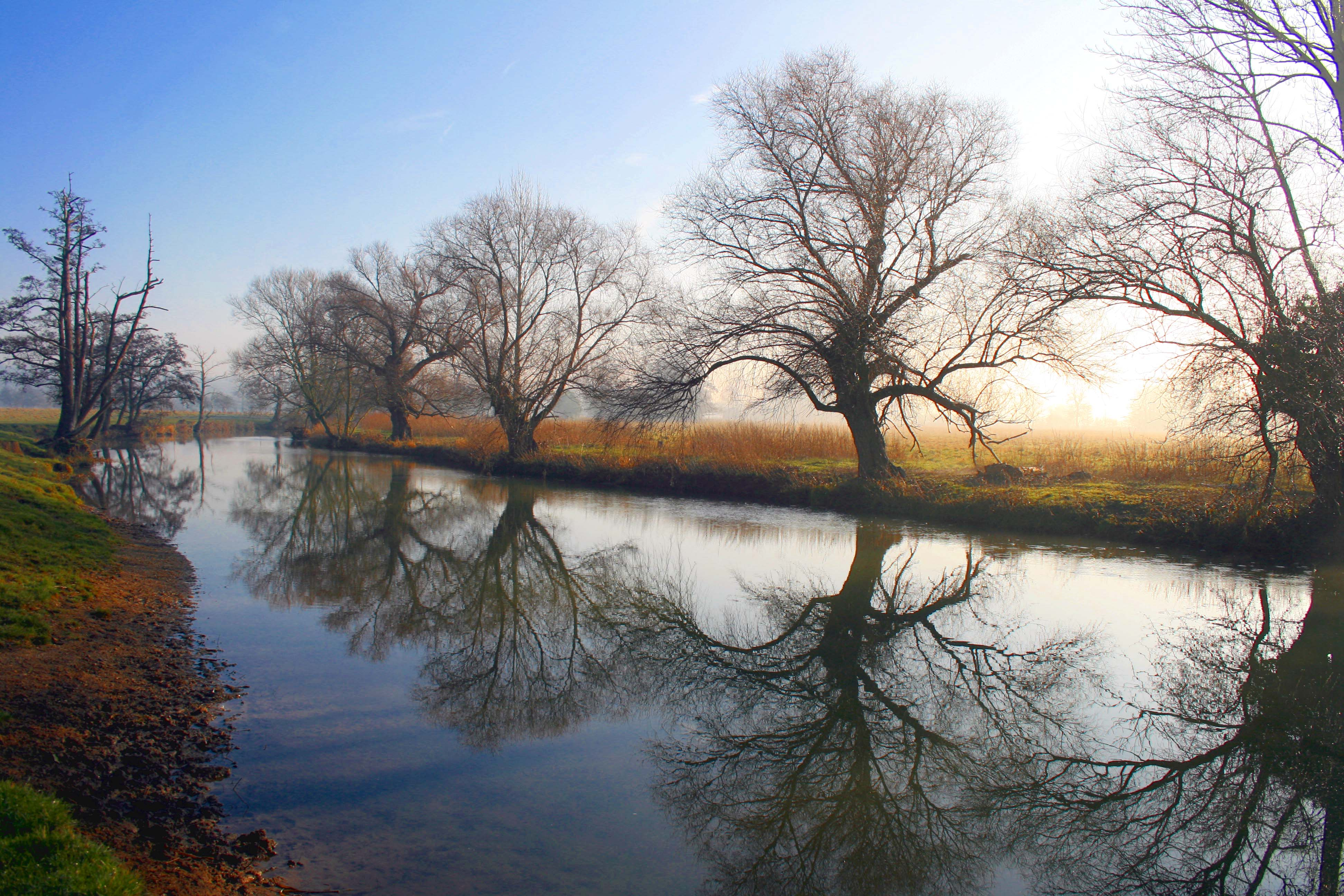 Trees along the River Stour, Dedham, Essex, England